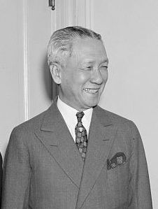 Cropped from this original upload.